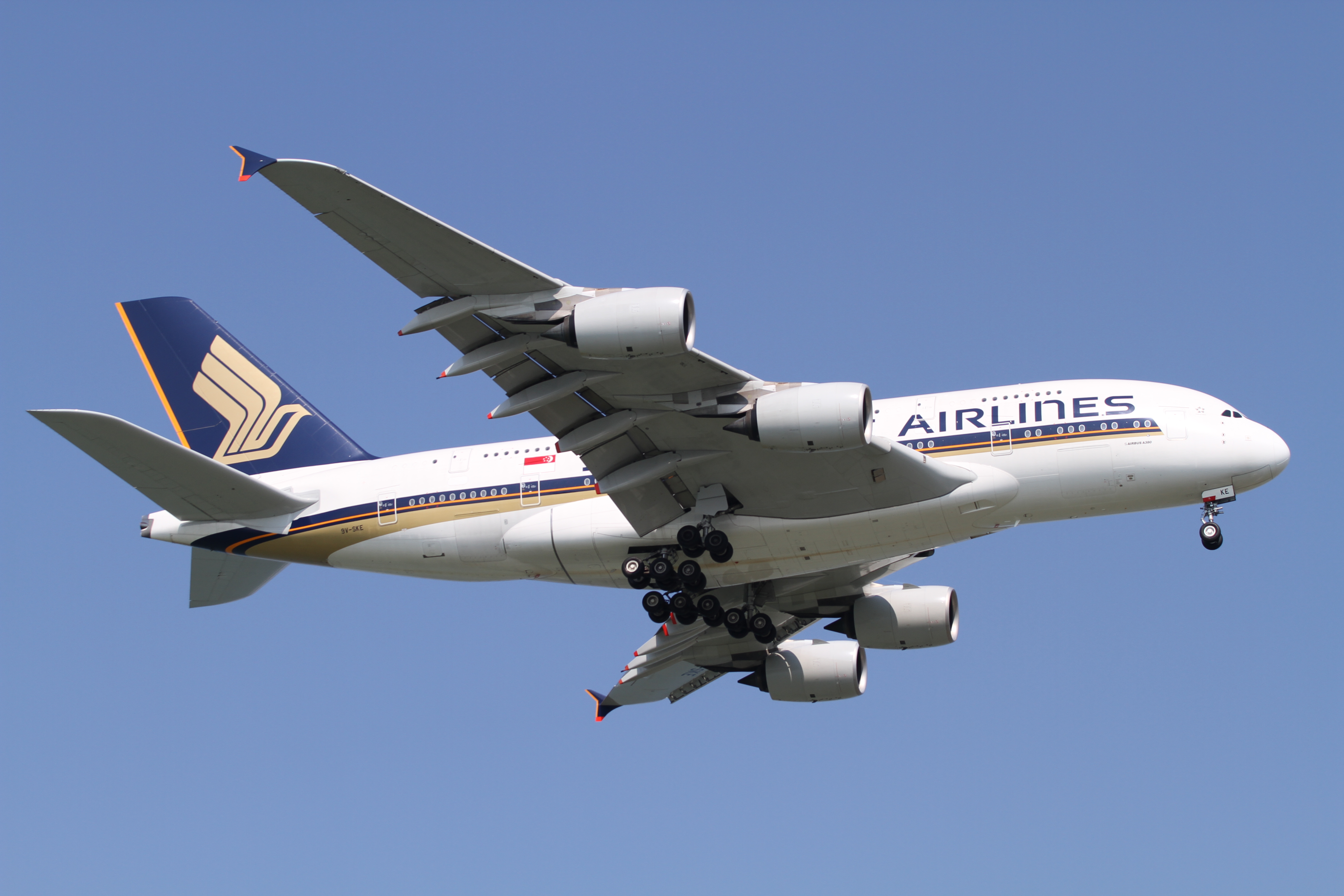 Singapore Changi Airport, Airbus A380-841, c/n:010, Singapore Airlines